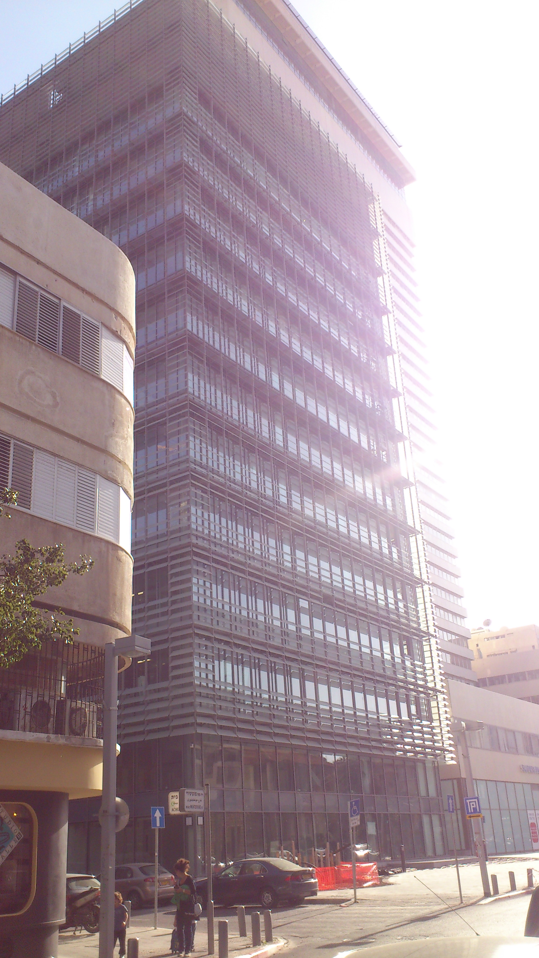 the new Tel Aviv Stock Exchange Building